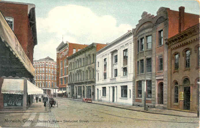 Postcard: Shetucket Street, downtown Norwich, Connecticut in 1909 — the postcard caption misspells the name as "Sketucket" although Norwich is on the "Shetucket River". Postcard caption on front: "Norwich, Conn. Banker's Row — Sketucket Street". Description: "[...] Postcard from Norwich Connecticut showing a View of Sketucket Street in the Downtown Business District in 1909. This section was known as Bankers Row. Notice the National Bank on the corner and the other Bank Buildings next door. Across the street is the Norwich Trading Stamp Company. This 1909 View [...]"